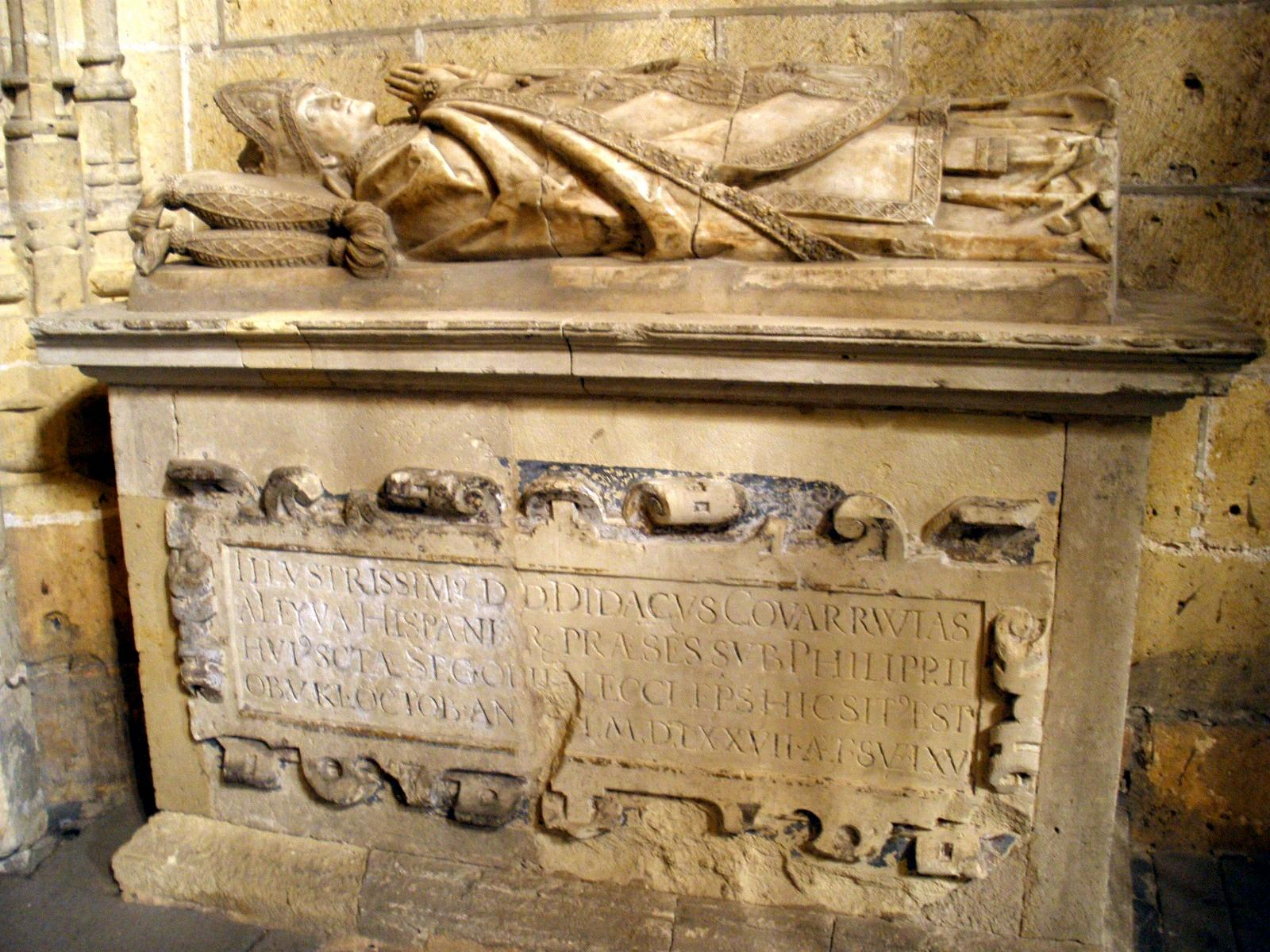 Sepulcro del Obispo Diego de Covarrubias, en la Capilla del Cristo del Consuelo de la Catedral de Segovia (España). Segovia Cathedral Native nameCatedral de Santa María de SegoviaLocationSegovia , (Spain)Coordinates40° 57′ 00.65″ N, 4° 07′ 32.24″ W EstablishedMiddle AgeWeb page control : Q1499912 VIAF: 151939123 ISNI: 0000 0001 0672 8869 LCCN: n81124924 NLA: 36562756 BIC: RI-51-0000862 WorldCat institution QS:P195,Q1499912